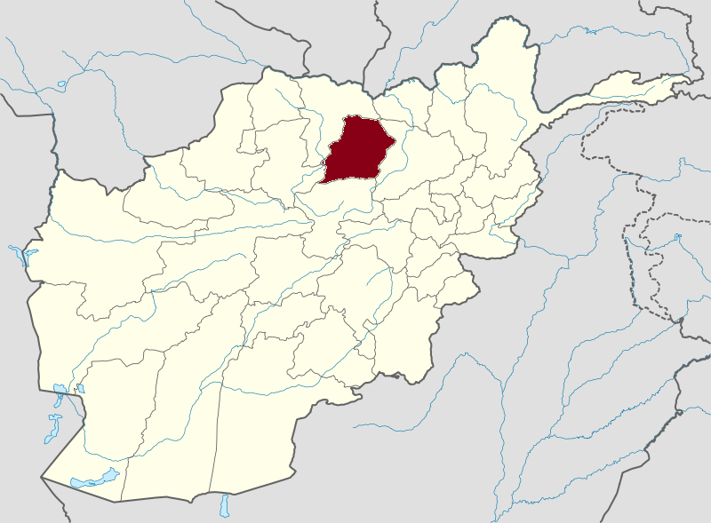 Samangan Province